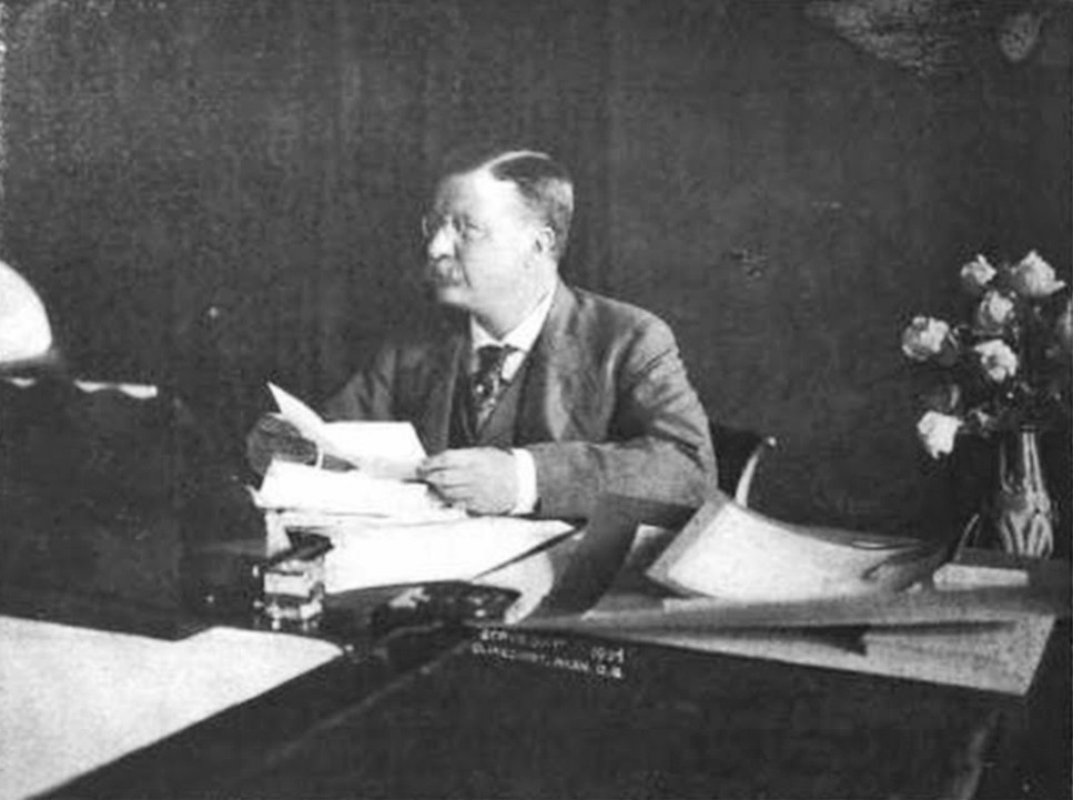 Photograph of Theodore Roosevelt